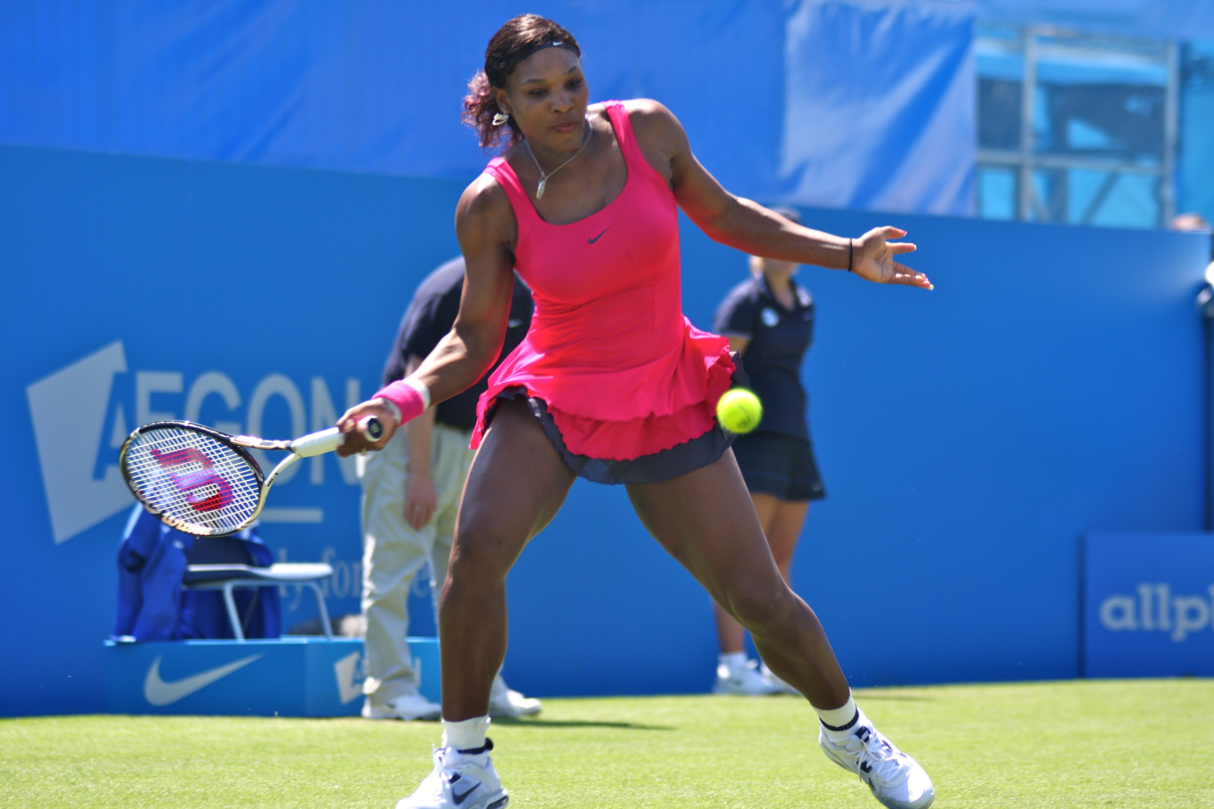 Serena Williams at the 2011 Eastbourne International.